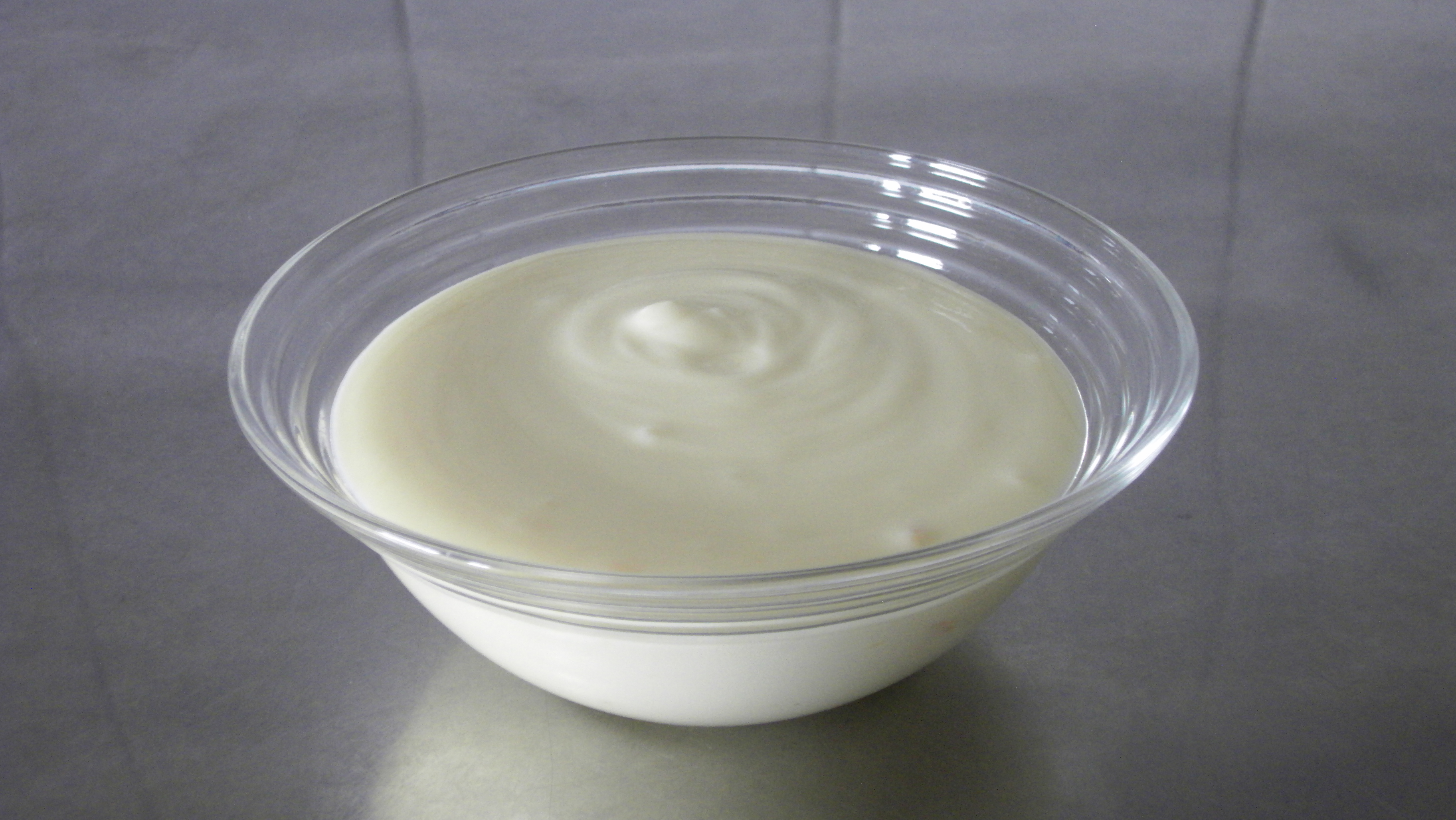 Yogurt by Yoggi original with the taste of many fruits: peach, kiwifruit, mango, pineapple, honeydew and passion fruit.